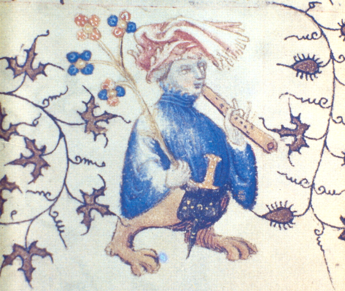 Grotesque flutist, French illuminated manuscript illustration, MS Douce 144, f.28v., Oxford, Bodleian Library[1]